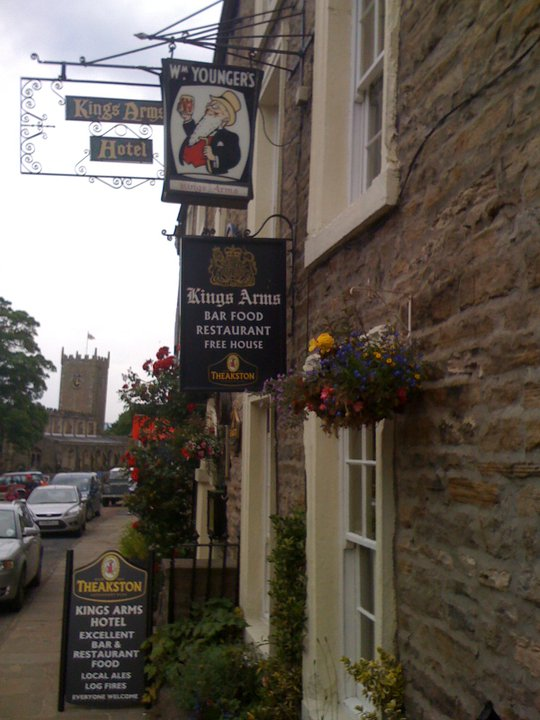 The Kings Arms public house, Askrigg, North Yorkshire, England, July 2011